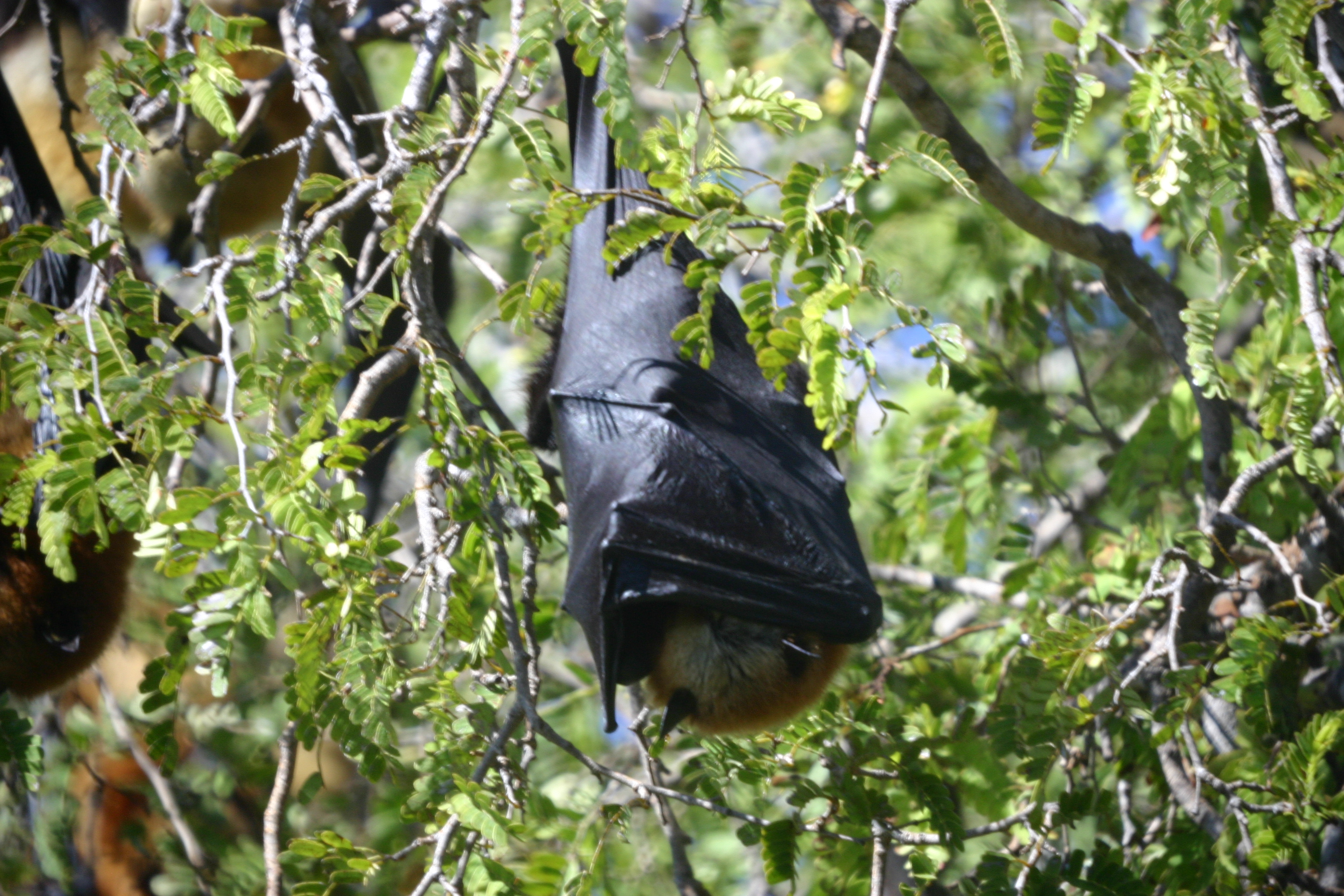 Pteropus rufus Location: Berenty, Madagascar